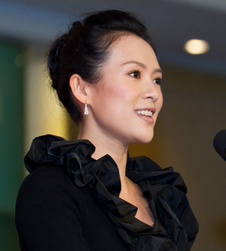 Zhang Ziyi in September 2010